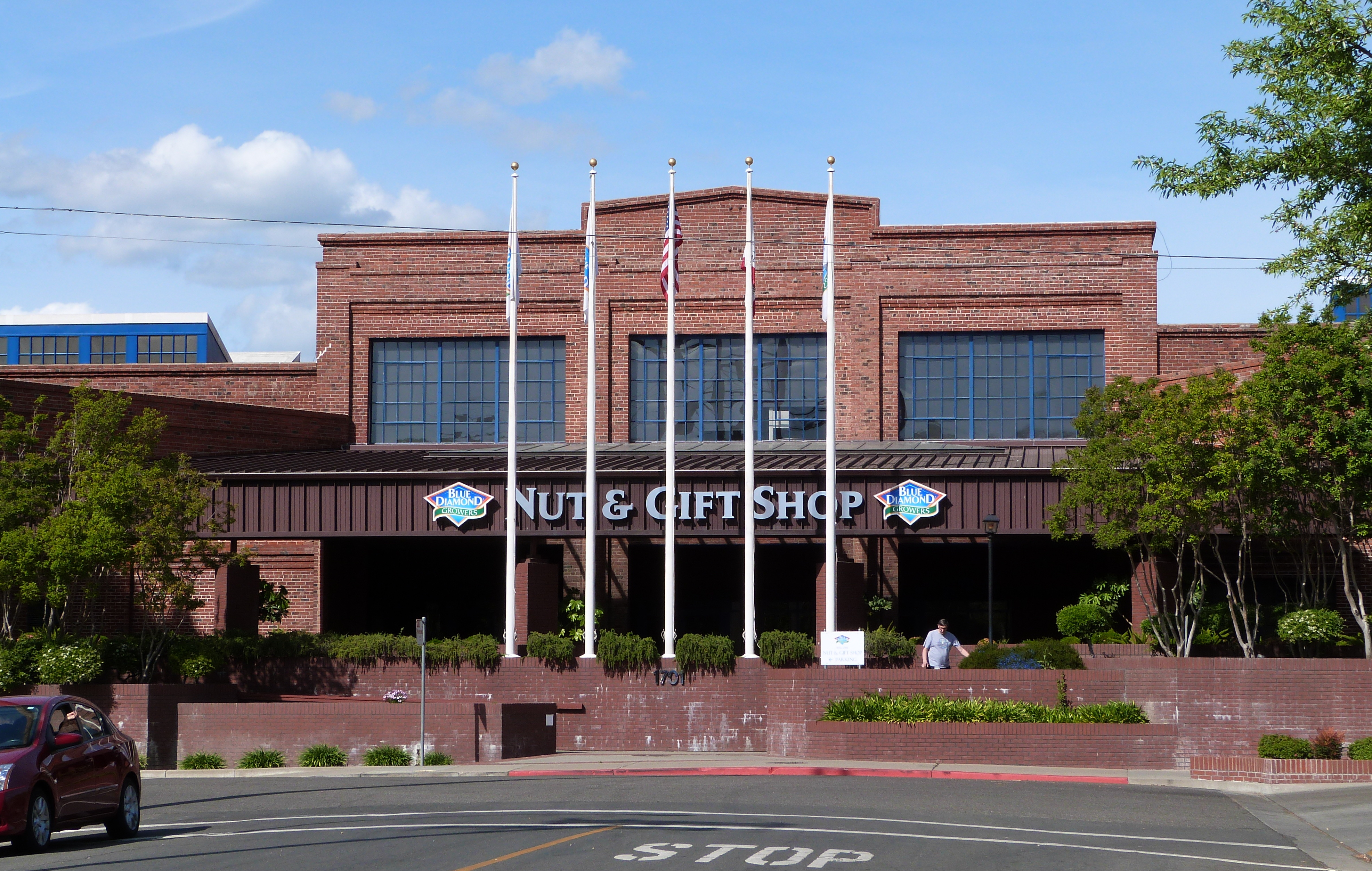 The historic Calpak Plant No. 11 (built 1925), located at 1721 C Street in Sacramento, California, United States, is listed on the US National Register of Historic Places. As of the photo date, it is an almond-processing plant for the Blue Diamond Growers.